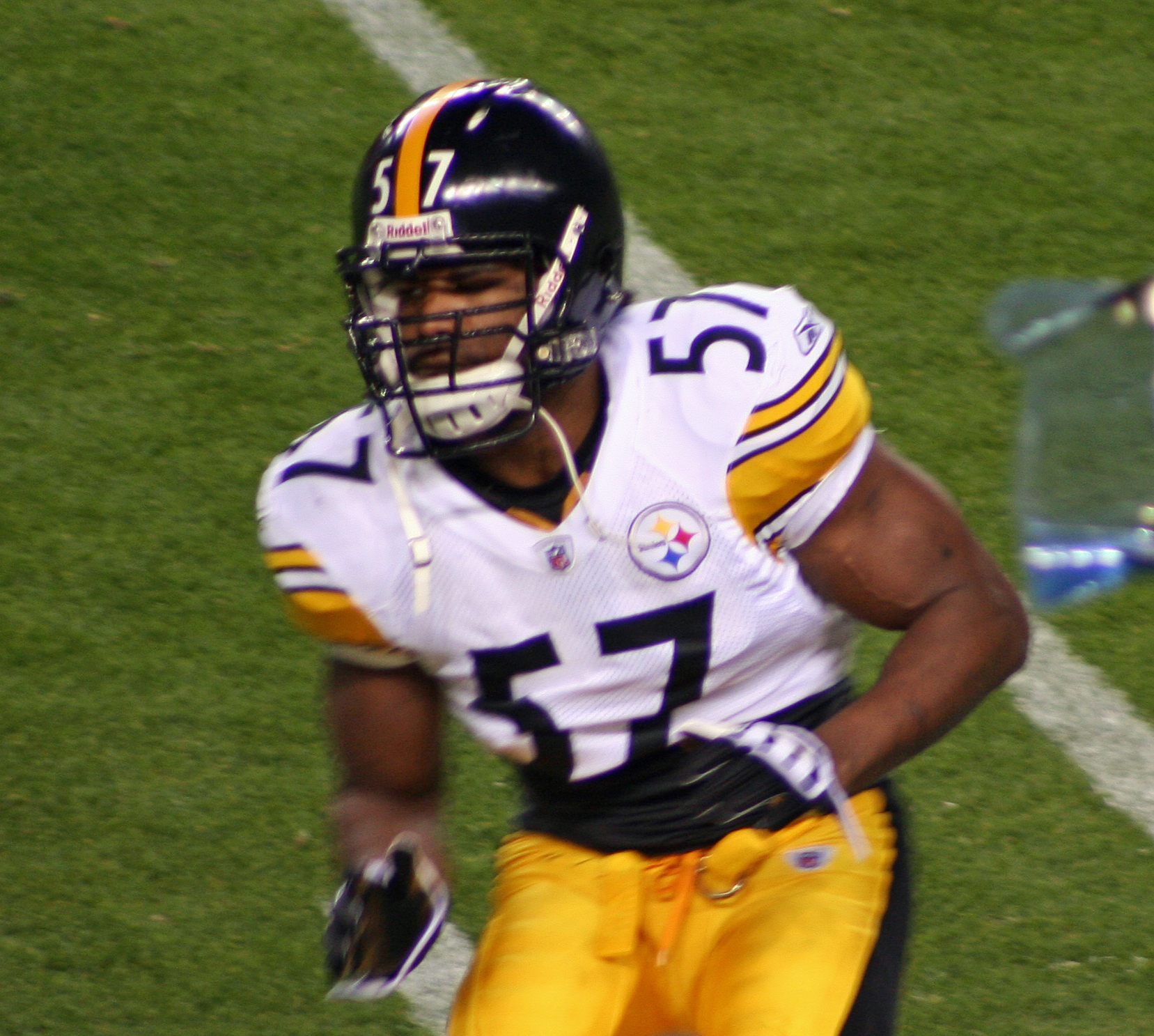 Keyaron Fox, a player on the Pittsburgh Steelers American football team.